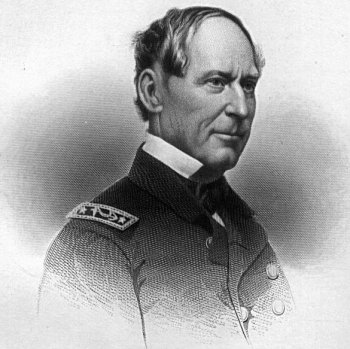 PD image from Category:United States history images 12:40, 12 October 2002 Magnus Manske 350x349 (29,739 bytes) (PD image from